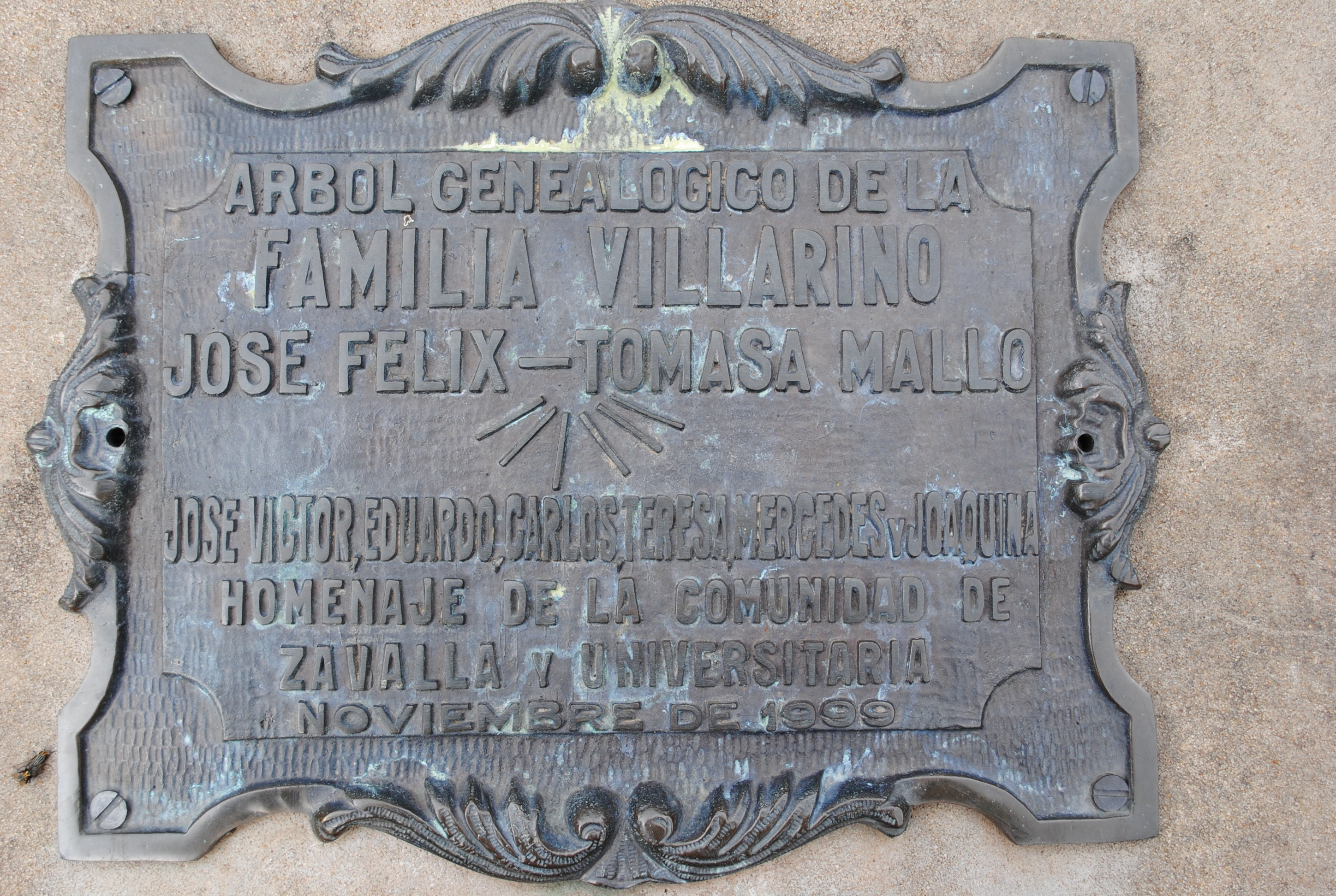 Villarino's family genealogical tree